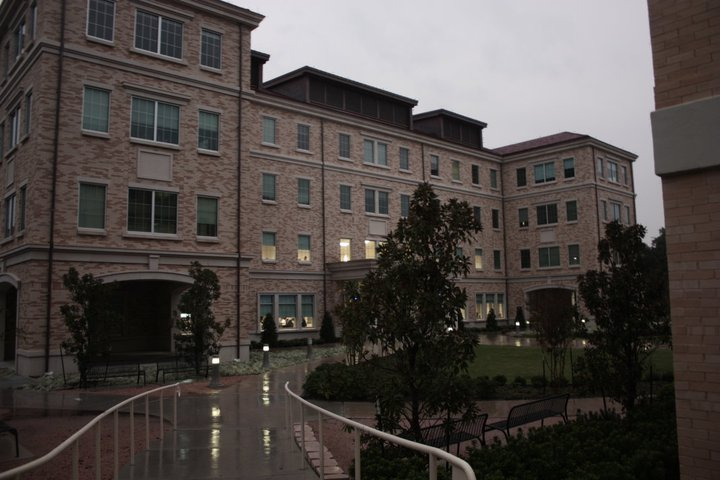 Rainy Day at TCU